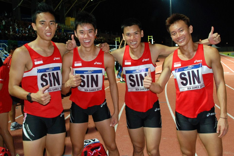 The Singapore Men's 4 × 400 metres relay team at the 2011 Southeast Asian Games after their race. From left to right, they are Md. Zaki Sapari, Ng Chin Hui, Lance Tan Wei Sheng, and Kenneth Khoo. (Photographed using a Canon EOS 450d.)